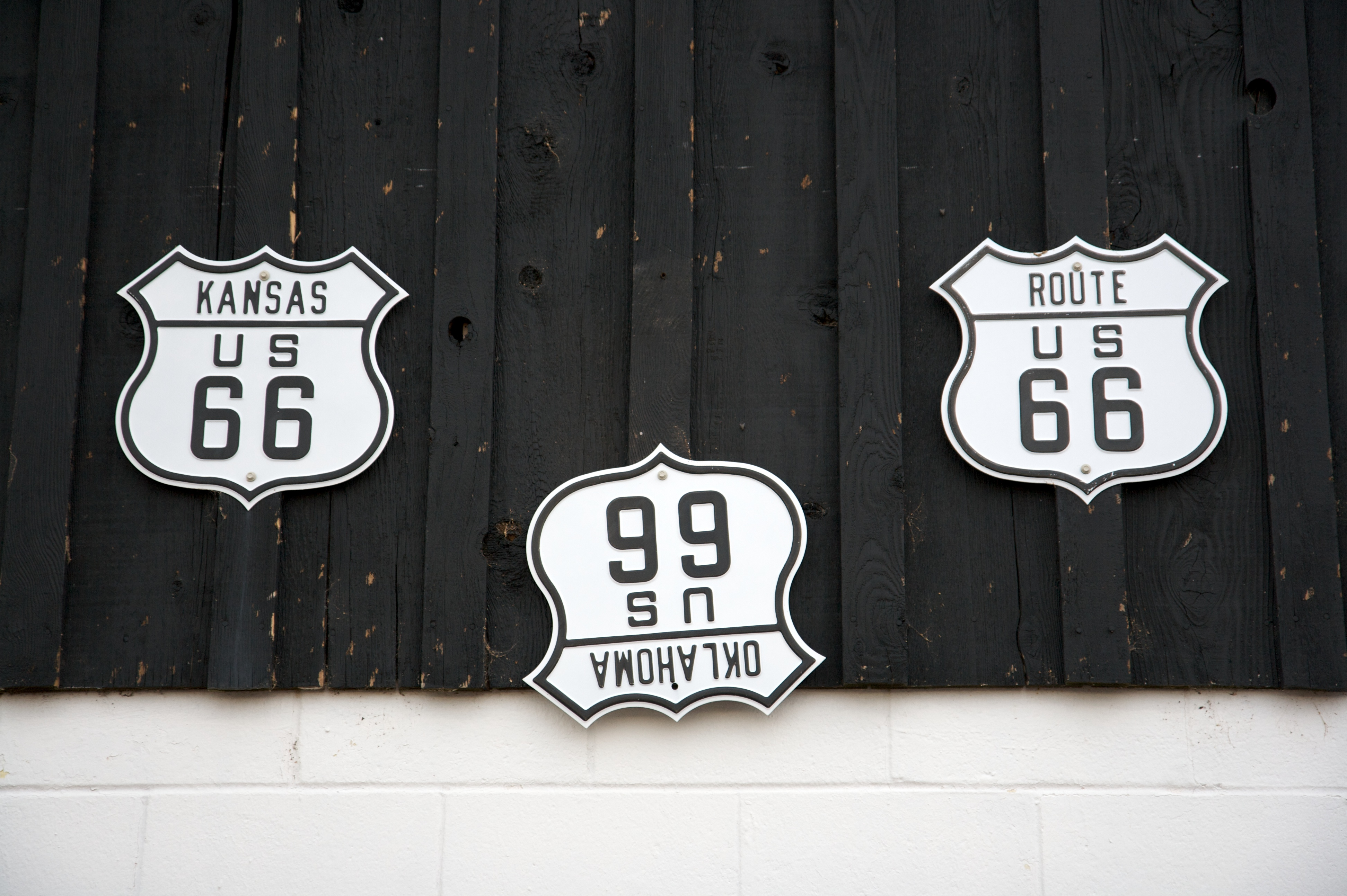 Various U.S. Route 66 markers posted outside the Midpoint Café in Adrian. The tiny town on U.S. Route 66 in Texas promotes itself as being "midway from Chicago to Los Angeles" on the historic highway.